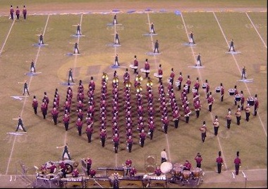 The Cypress Creek High School Marching Band at the Bands of America Orlando Regional Championship in 2000.